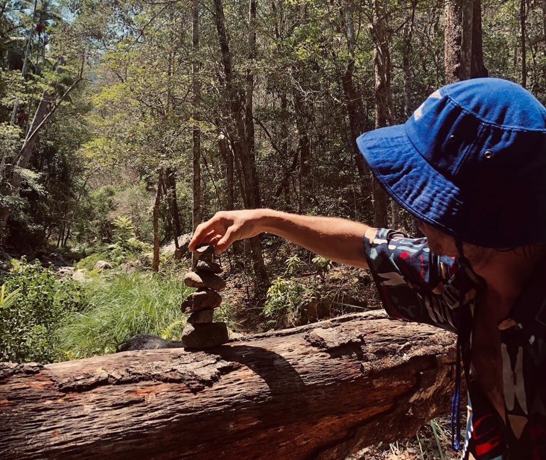 Rock Stack - Australia